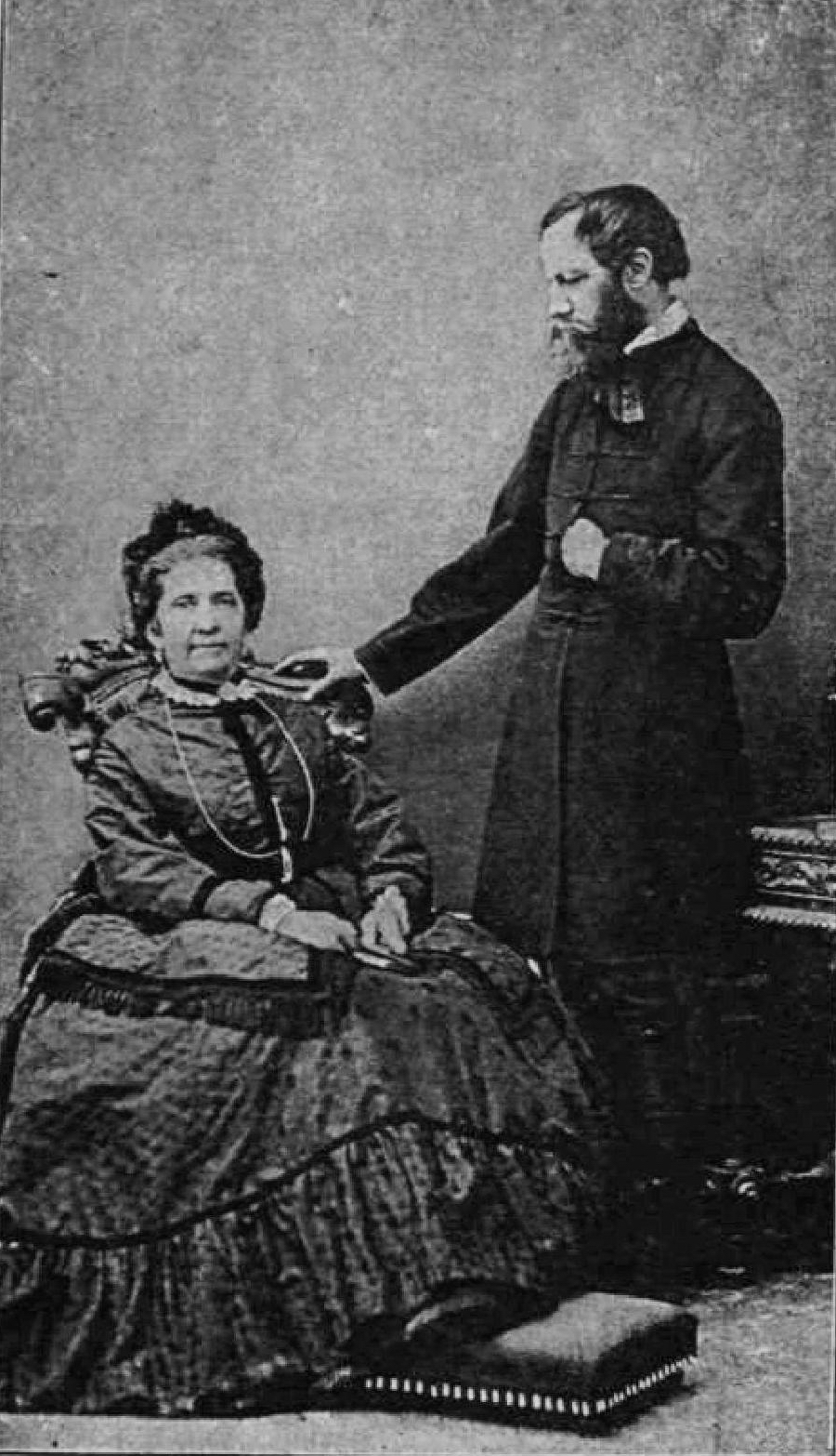 Mór Jókai and his wife Róza Laborfalvi